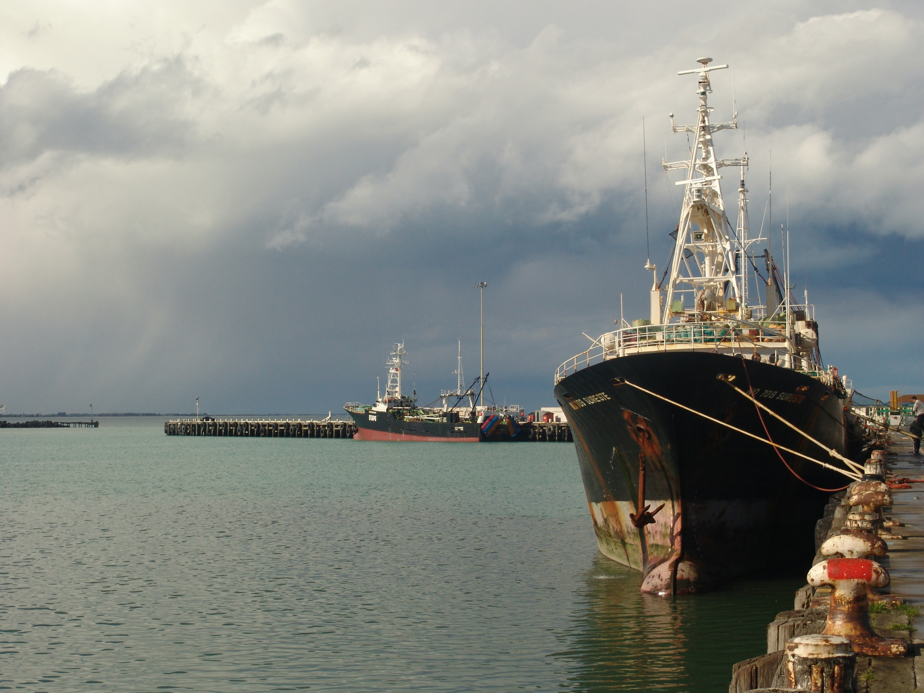 Port of Timaru, New Zealand. User:Arria Belli corrected the horizon. Ships name: Sur Este 709 IMO number: 8414465 Callsign: DTAR6